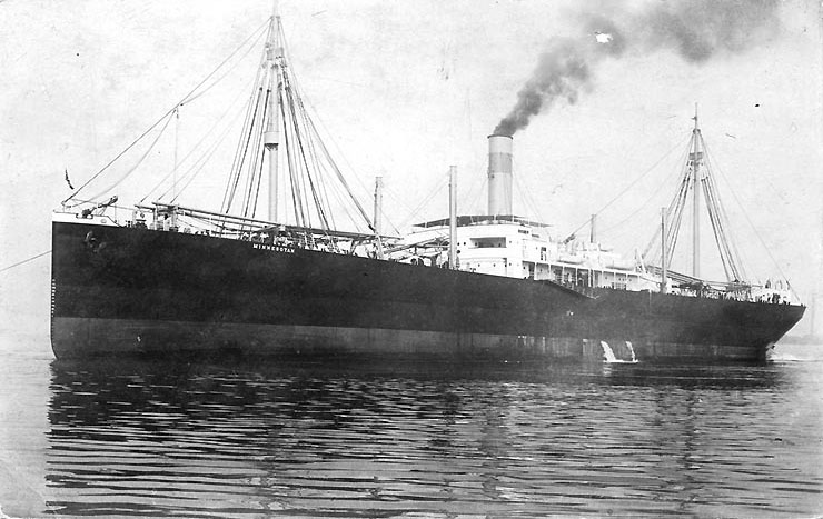 S.S. Minnesotan (American Freighter, 1912) Photographed prior to World War I. She was USS Minnesotan (ID # 4545) in 1918-1919. The original image is printed on postal card ("AZO") stock. Donation of Dr. Mark Kulikowski, 2005. U.S. Naval Historical Center Photograph.